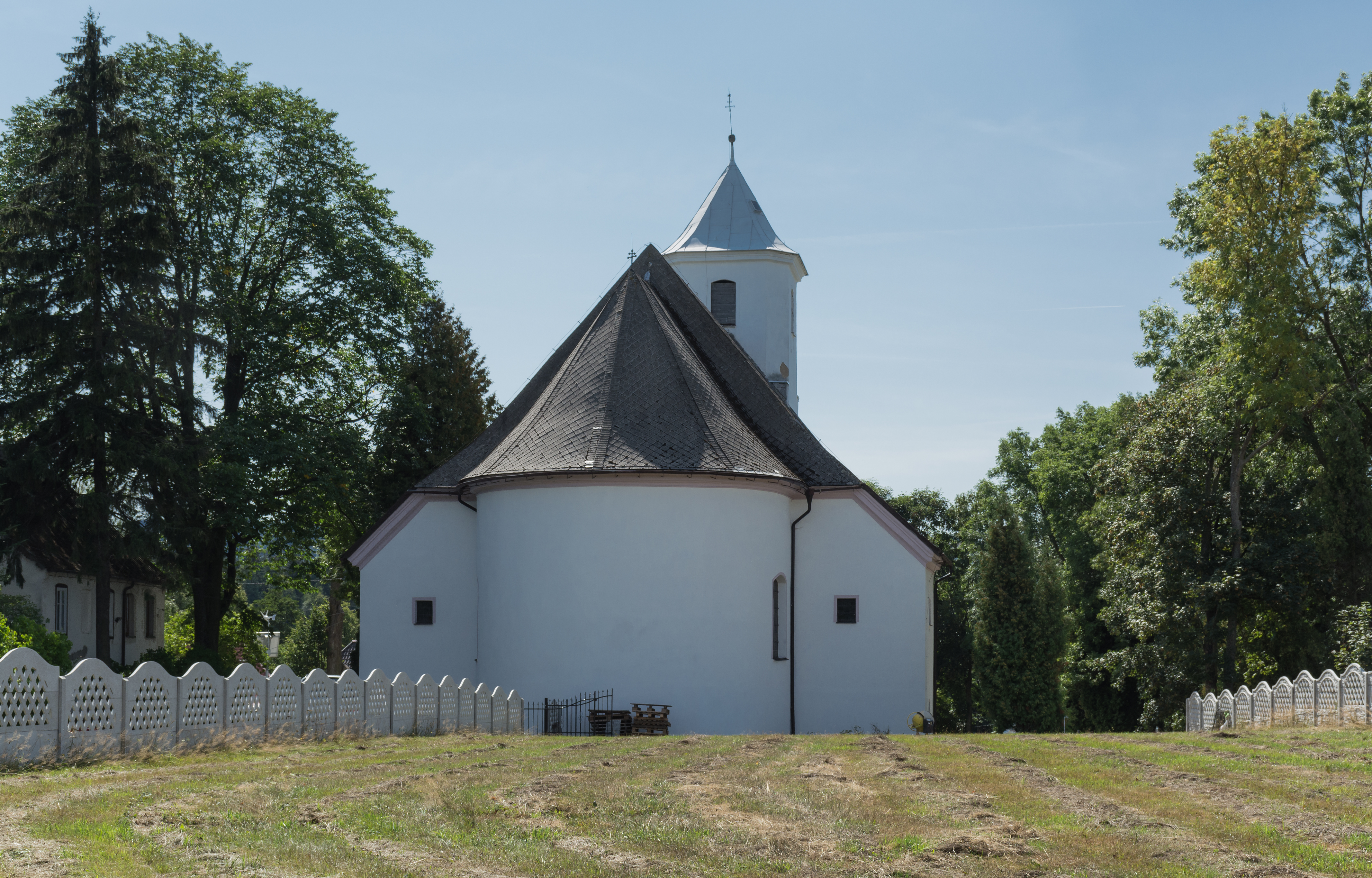 Saint Joseph church in Ponikwa